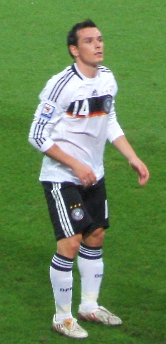 Piotr Trochowski, German football player